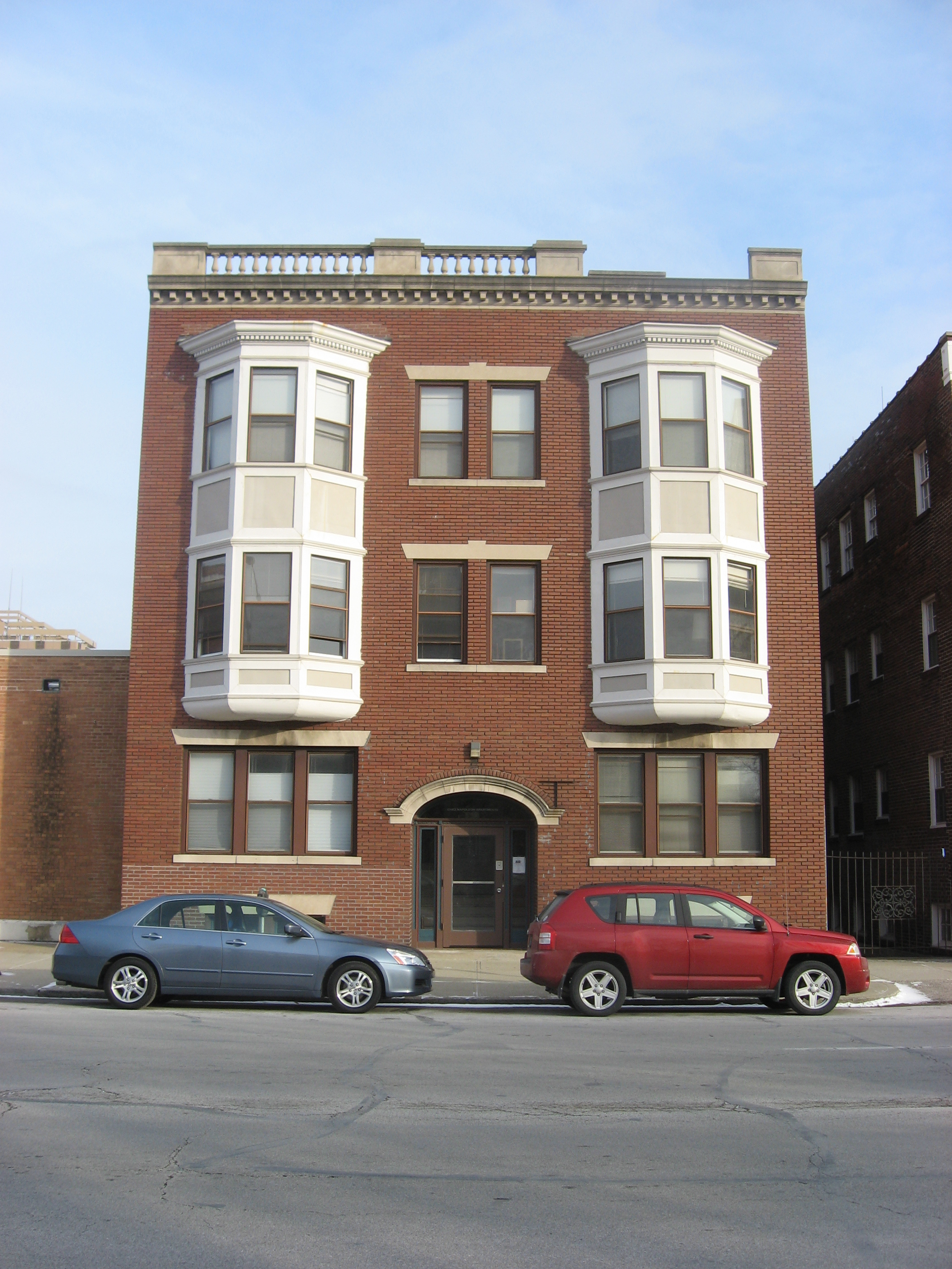 Front of The Grover, located at 615 N. Pennsylvania Street in Indianapolis, Indiana, United States. Built in 1914, it is listed on the National Register of Historic Places as one of the "Apartments and Flats of Downtown Indianapolis Thematic Resources".